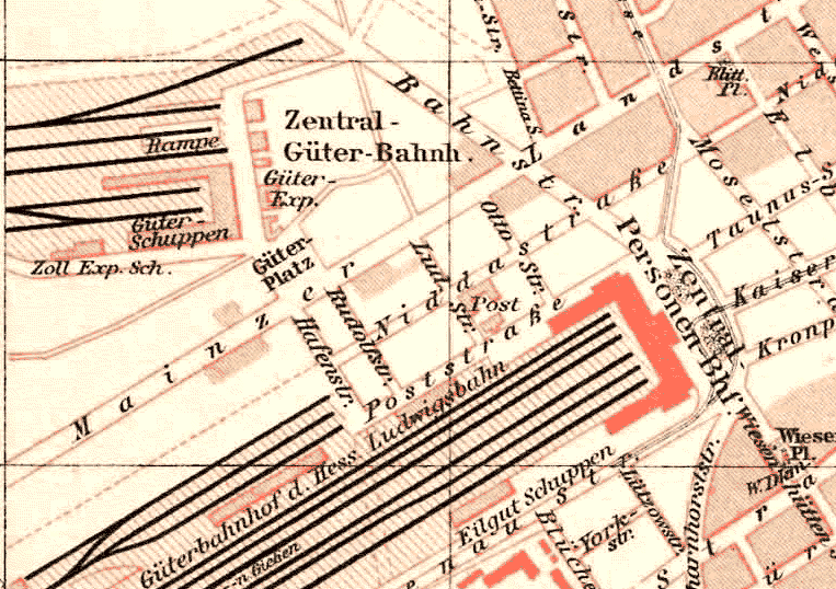 Frankfurt city map, 1893: Gallus quarter, between Central station in the south and main cargo yard in the north, today a densely built-up commercial district with skyscrapers.